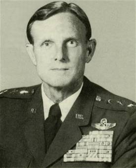 General William Henry Ginn Jr., USAF